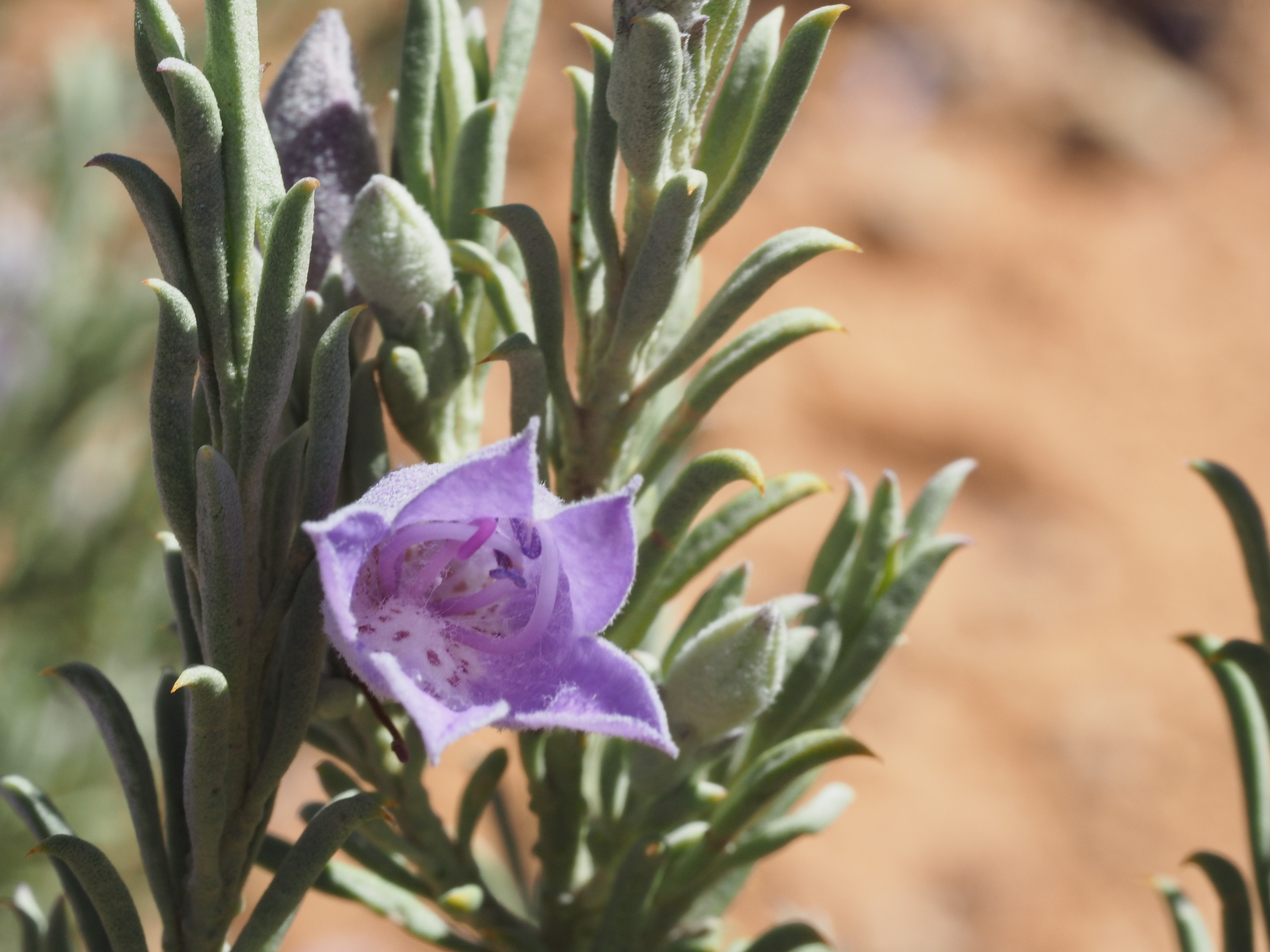 Eremophila pantonii growing 43 km east of "Pingandy"